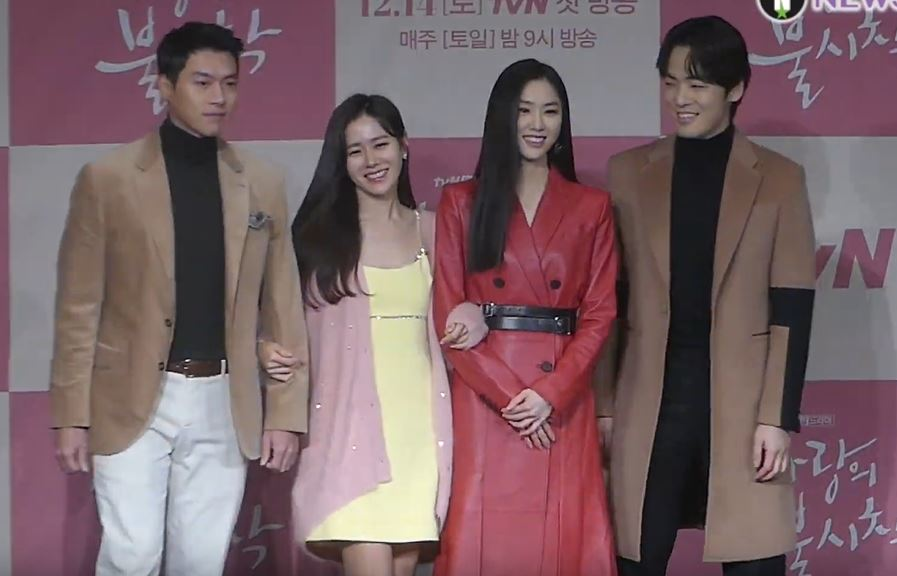 Cast of Crash Landing on You